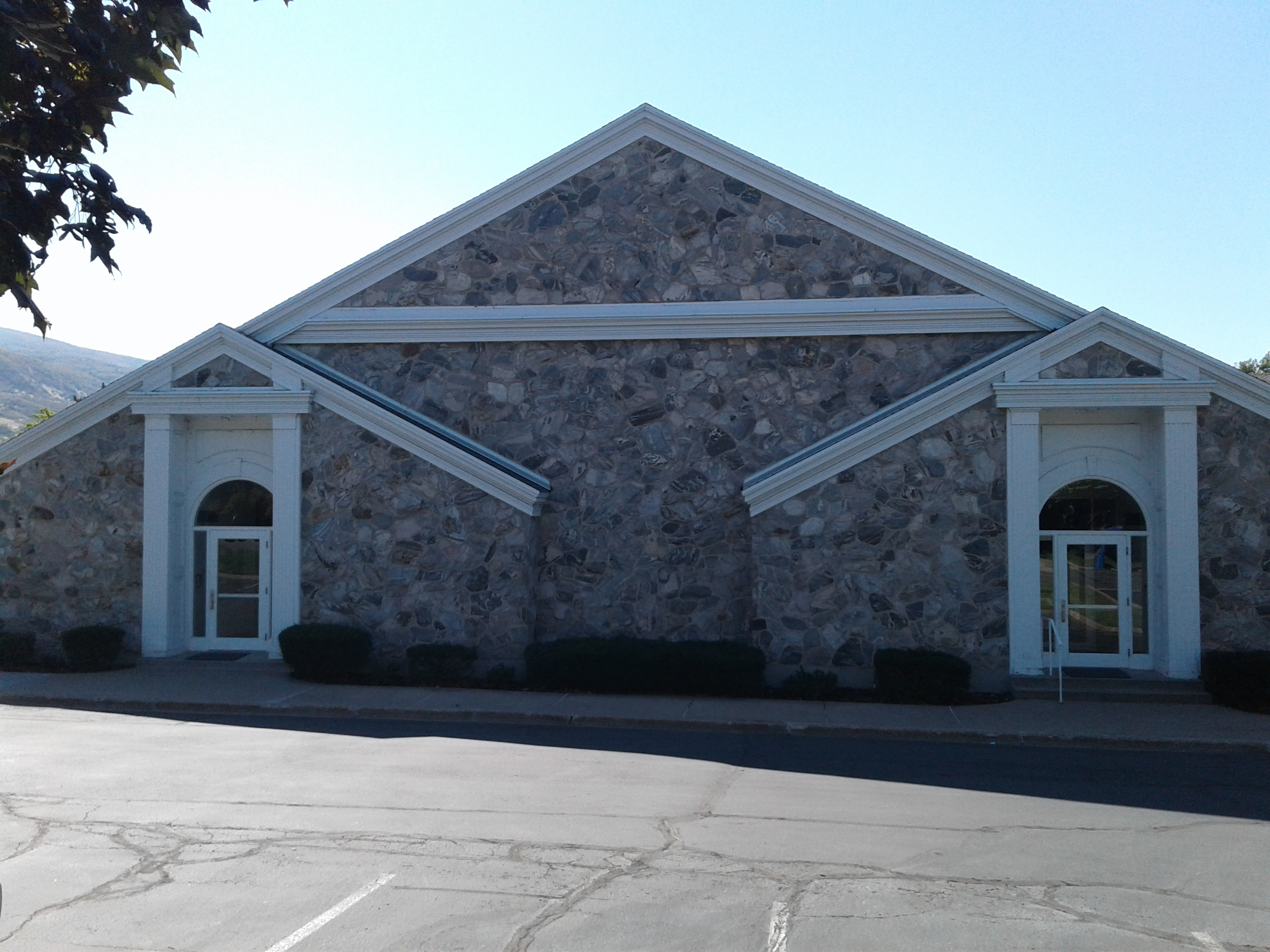 Utah, Farmington Rock Chapel. Wikidata has entry Q5435911 with data related to this item.